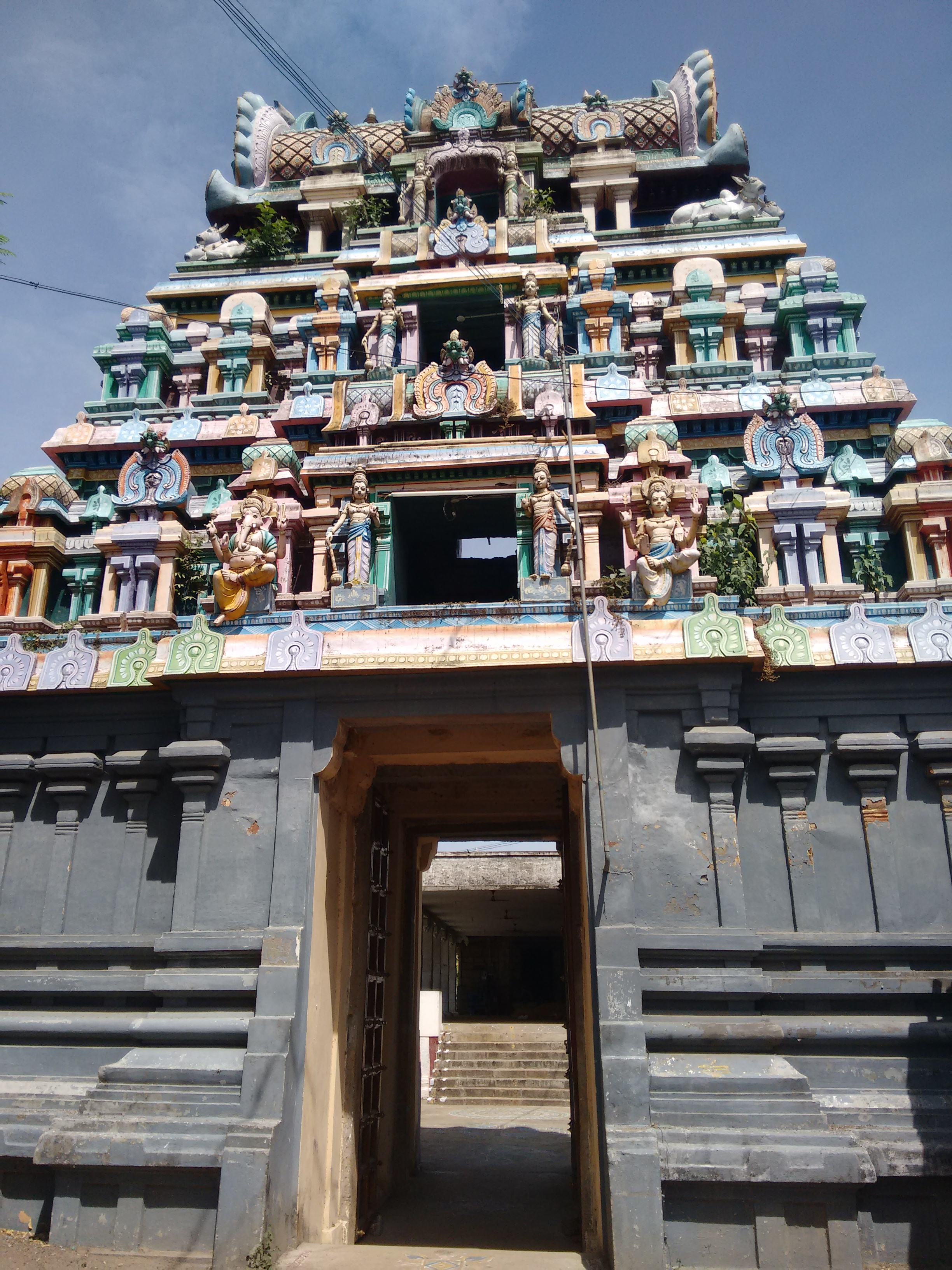 இலுப்பைப்பட்டு நீலகண்டேஸ்வரர் கோயில் Iluppaipattu Neelakandeswarar Temple